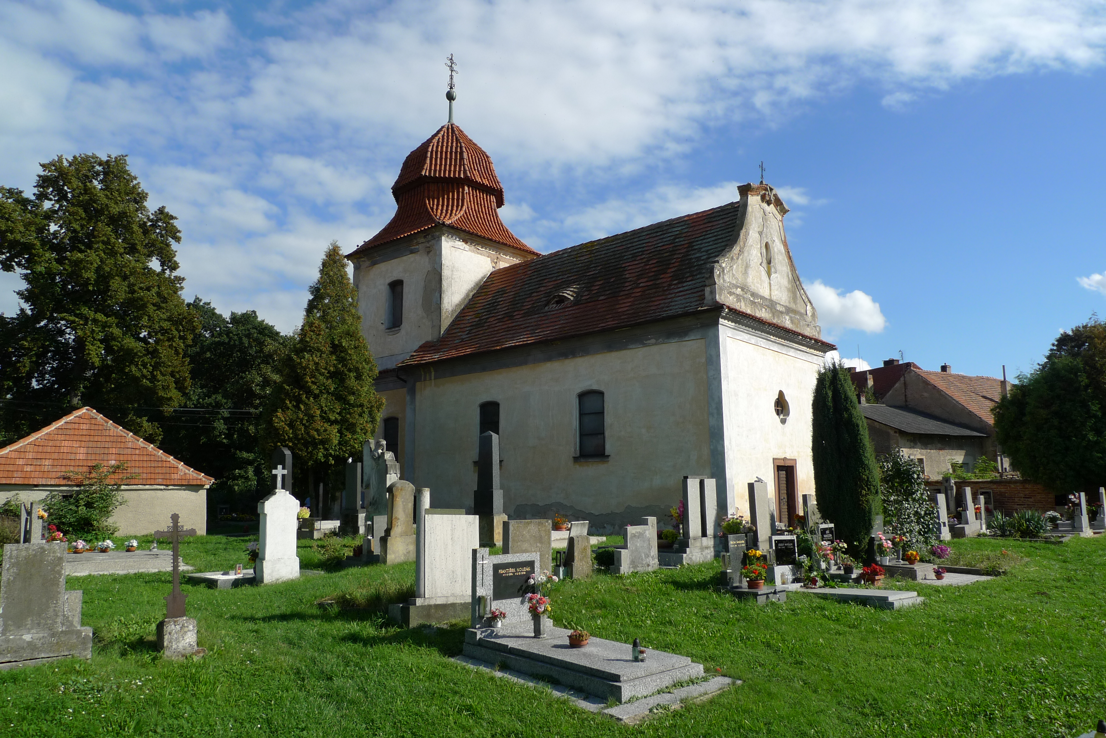 Saint Bartholomew Church in Bylany, Central Bohemian Region, Czech Republic